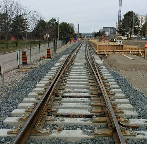 Gauntlet track of ION rapid transit line in Waterloo near Seagram's drive.